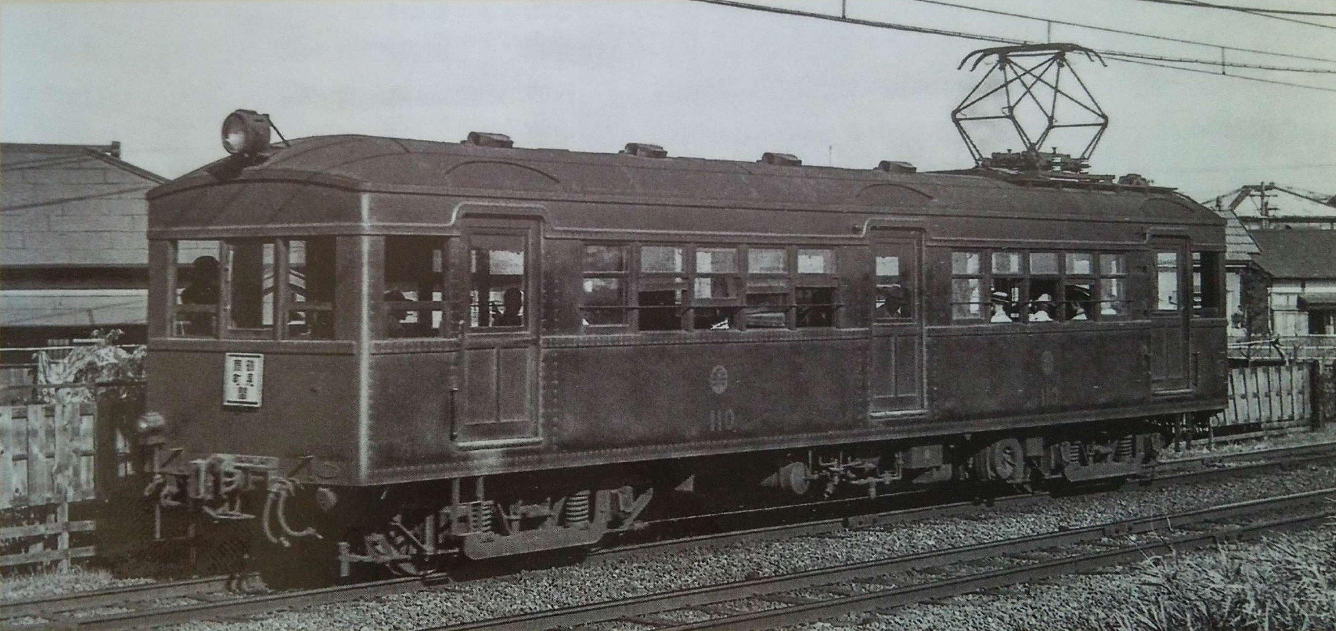 Tsurumi Rinko Railway MoHa 100 type electric car number MoHa 110 (built by Asano Shipbuilding in 1930)